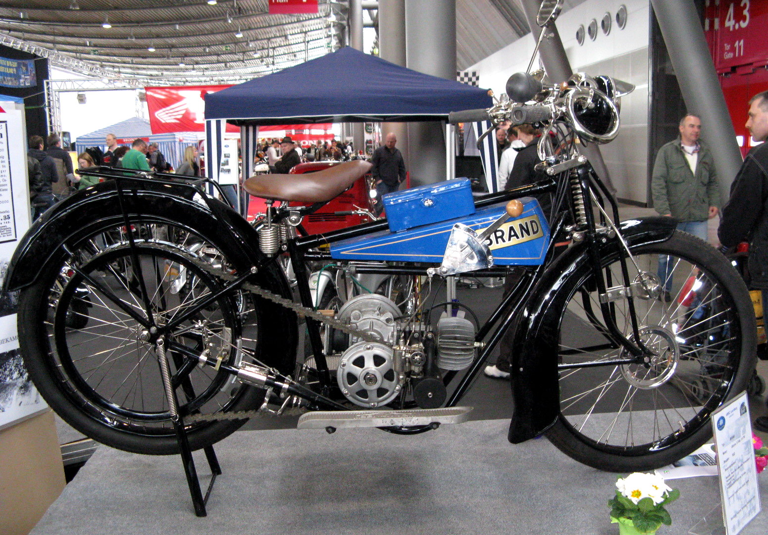 1922 Brand motorcycle